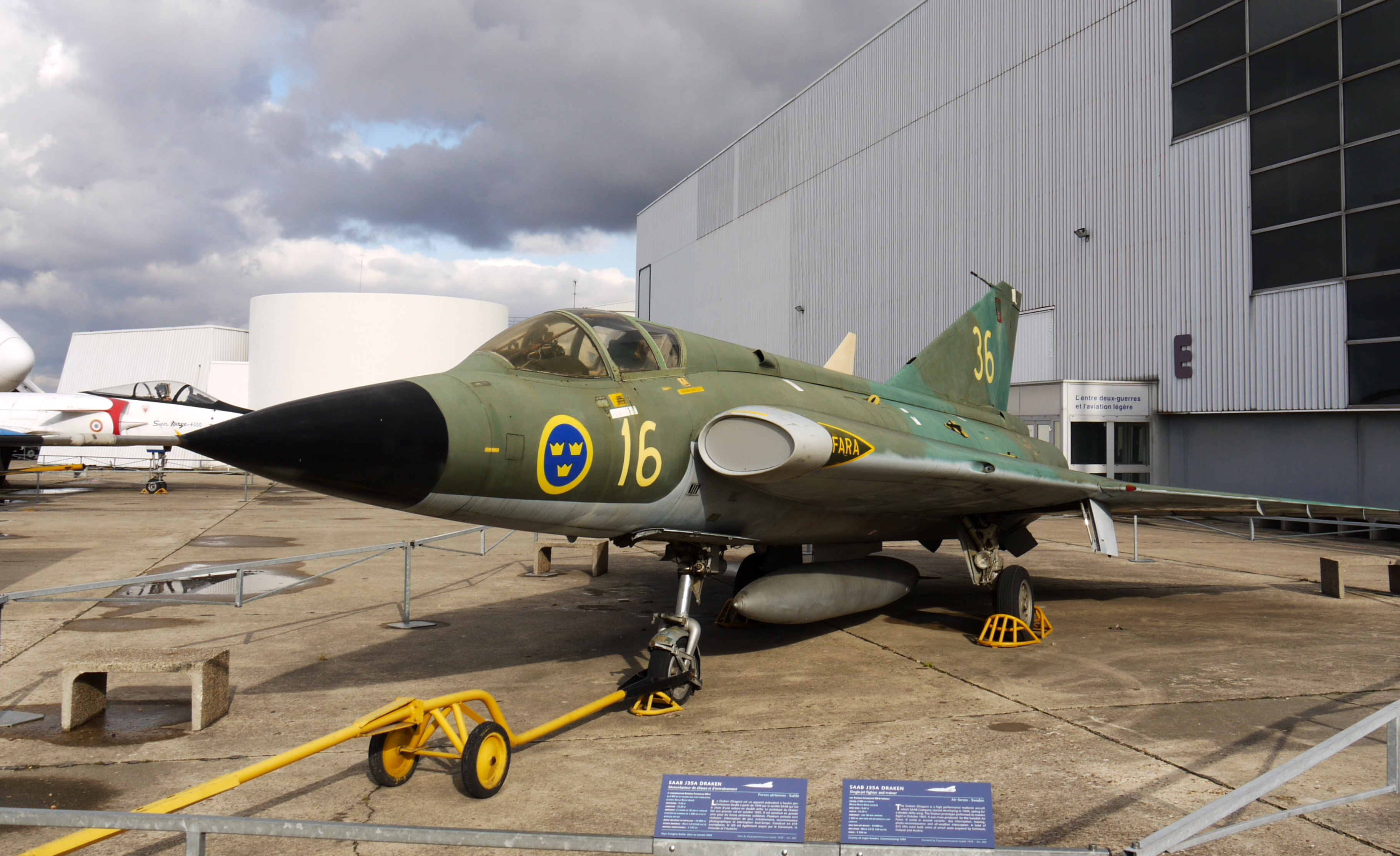 Saab J 35A Draken (S/N 35069) Displays of aircraft and spacecraft at the Musée de l'Air et de l'Espace (Air & Space Museum), Le Bourget, Paris, France, taken in September 2008.